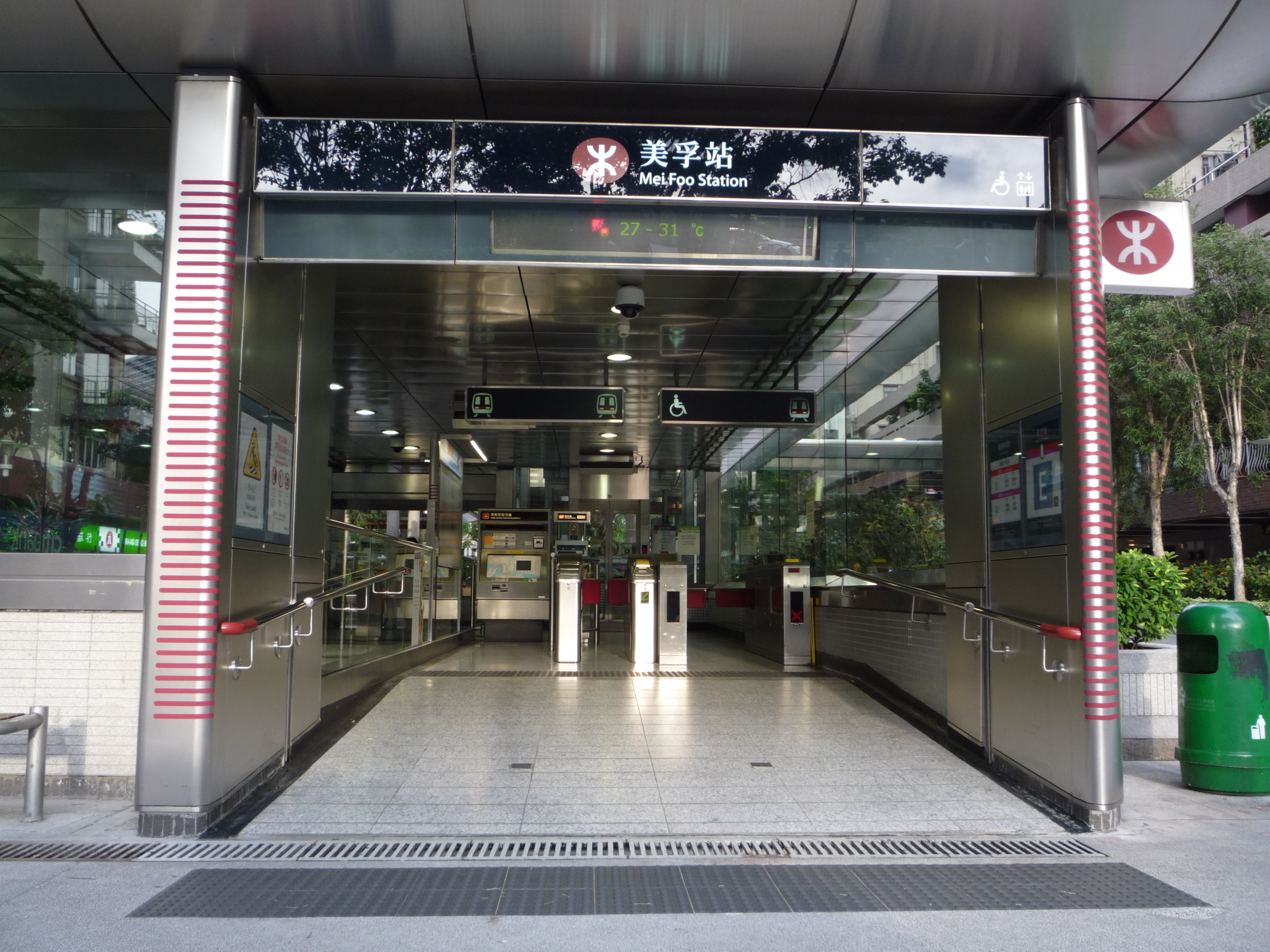 MTR Mei Foo Station Exit E